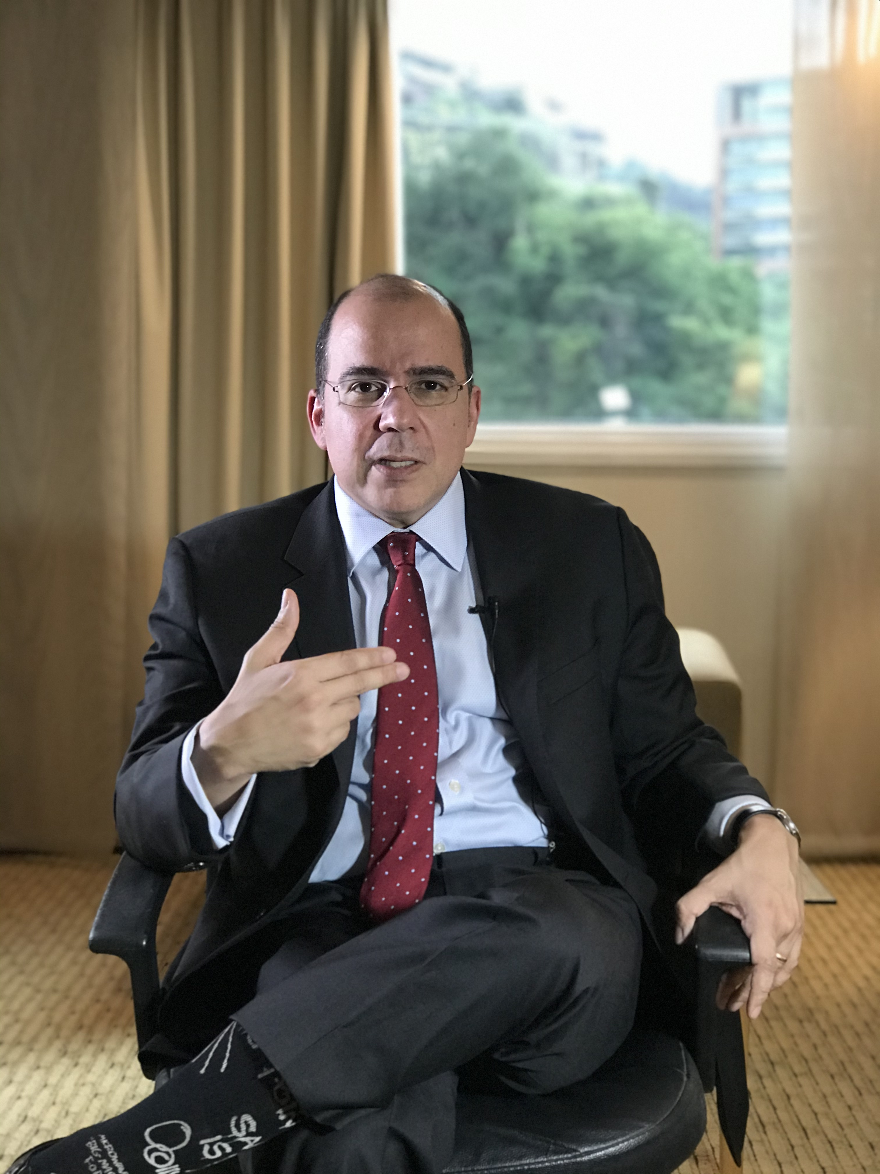 Economist Francisco Rodríguez during an interview in Caracas, on december 8th, 2019